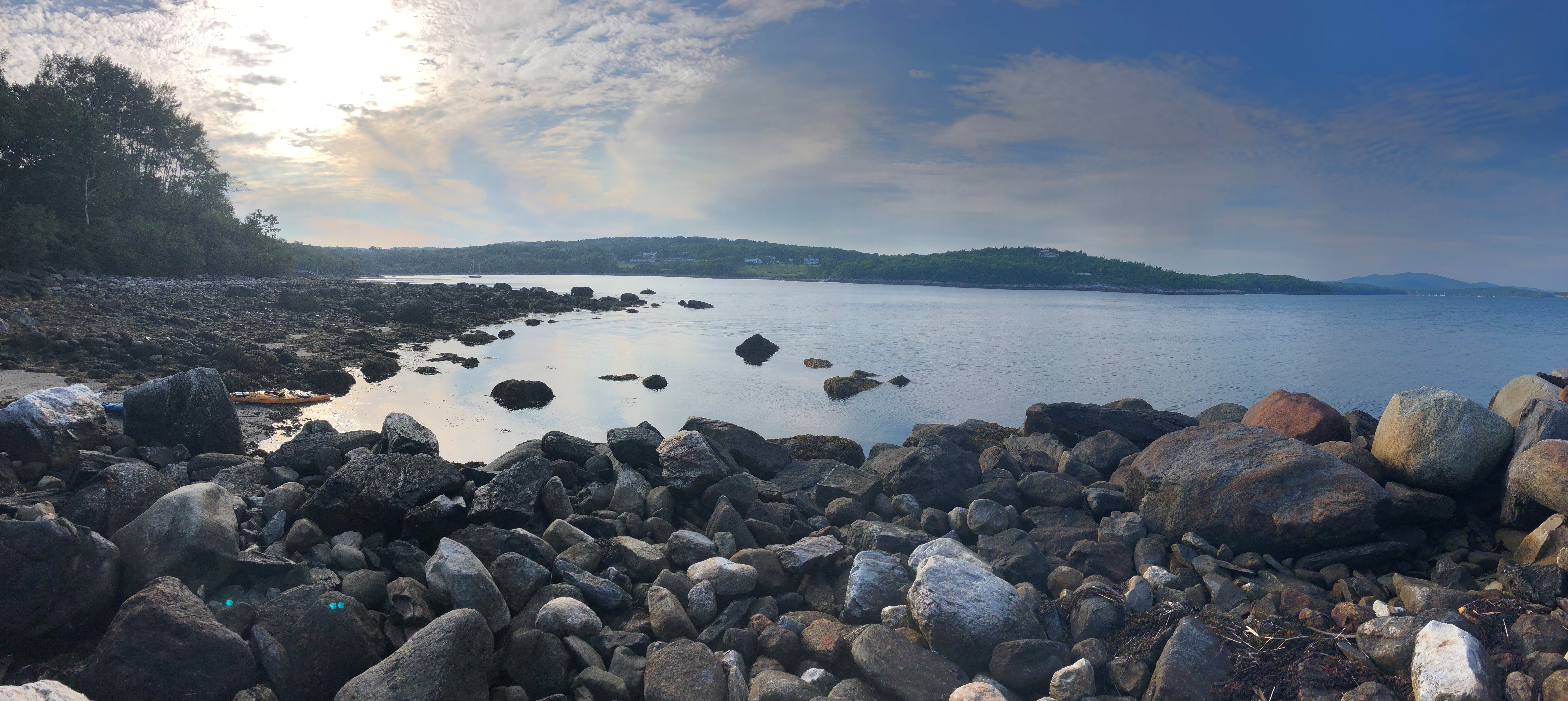 Looking into Gen Cove from the shore as the cove opens up into the ocean.